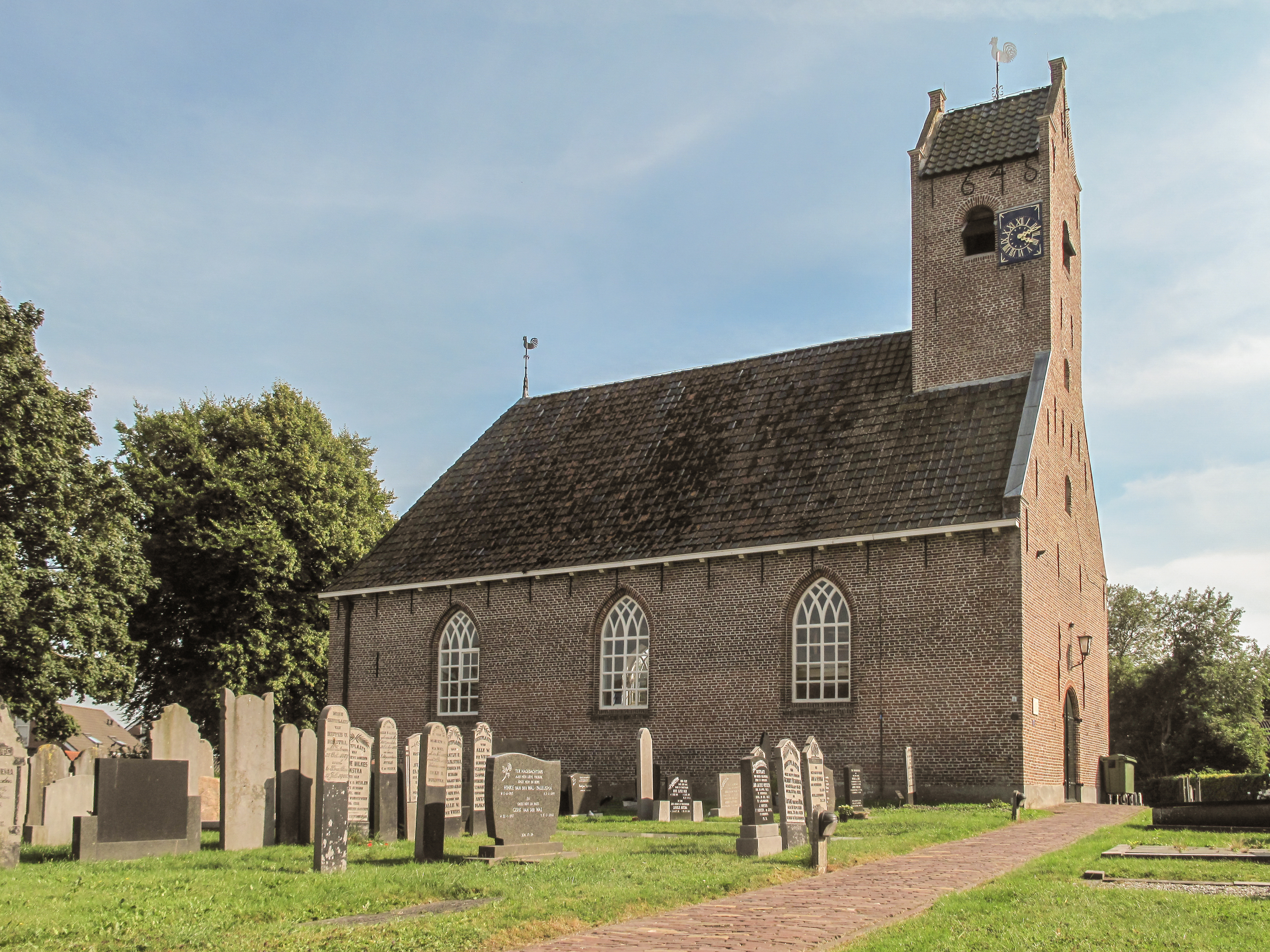 Feanwâlden, church: de Johanneskerk